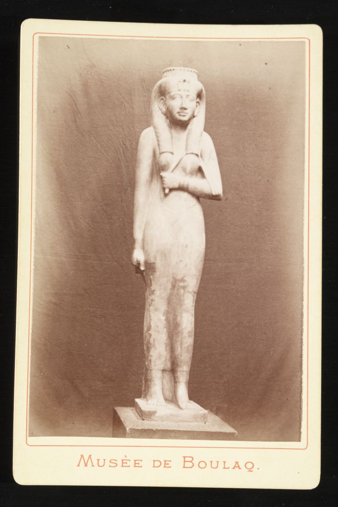 Woman standing with headdress and dress